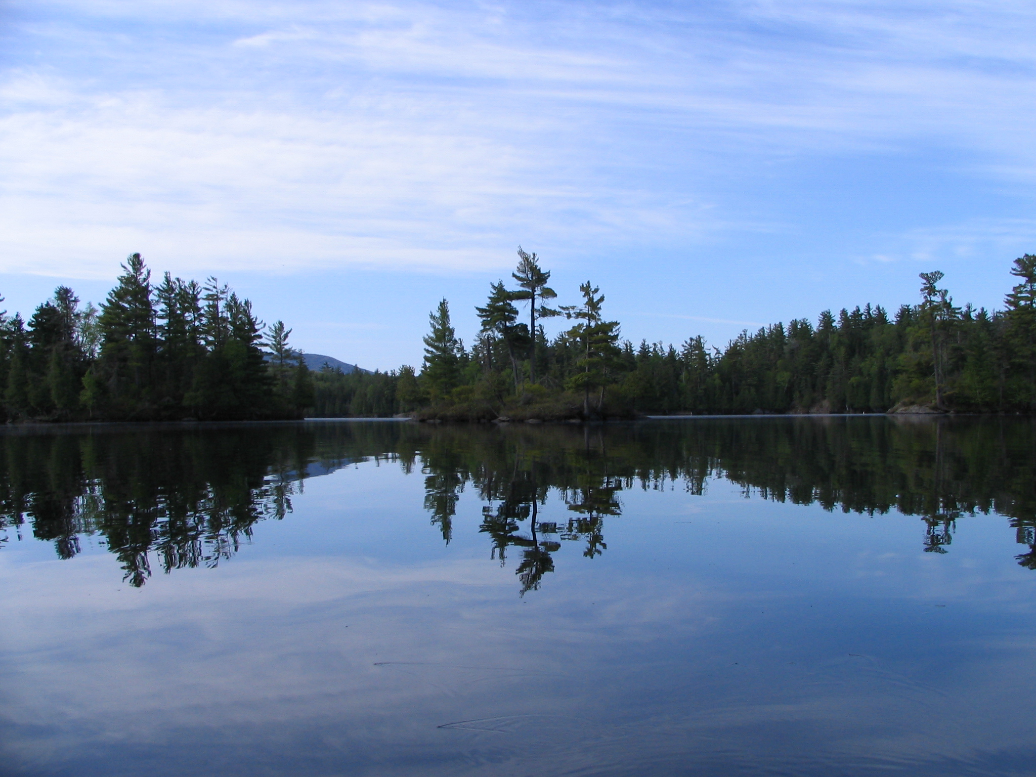 Weller Pond, two of the islands with campsites